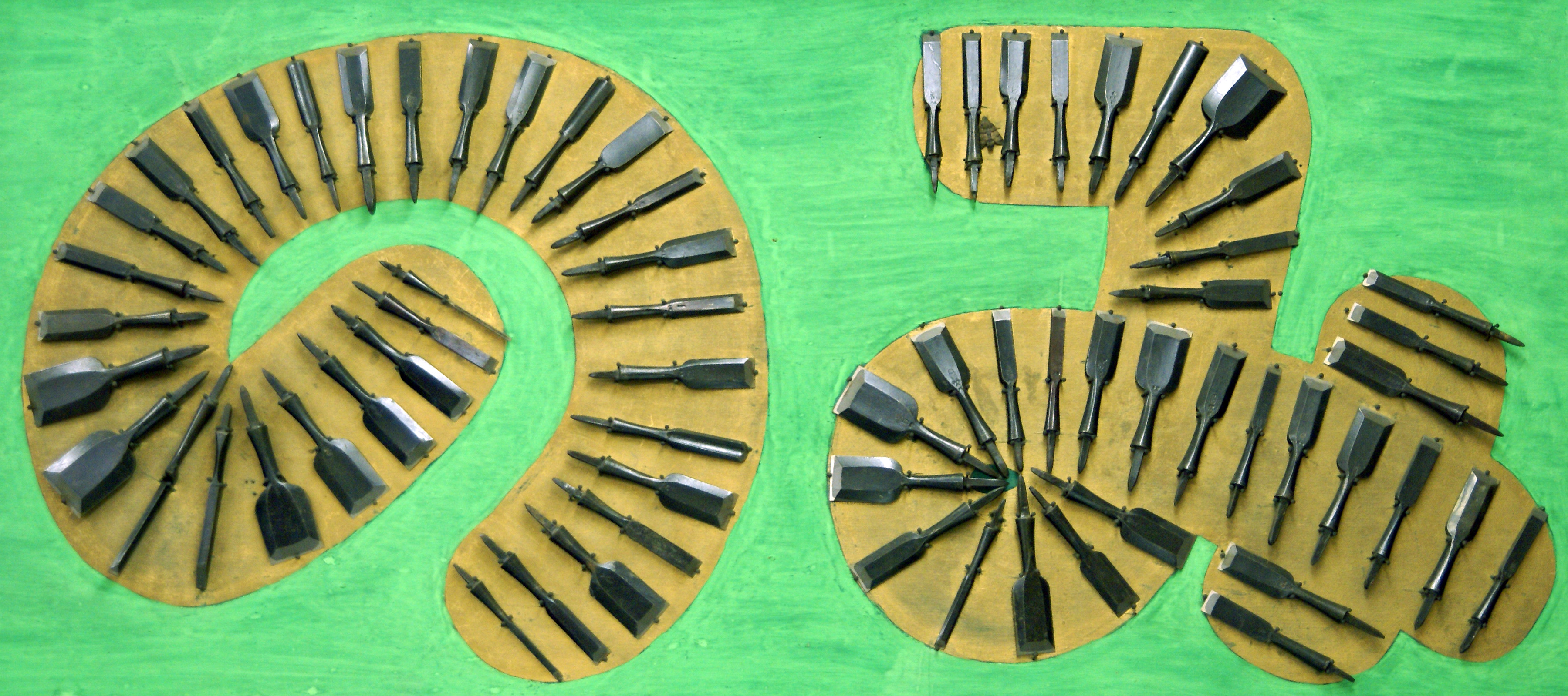 Miki City Hardware Museum in Miki, Hyogo prefecture, Japan